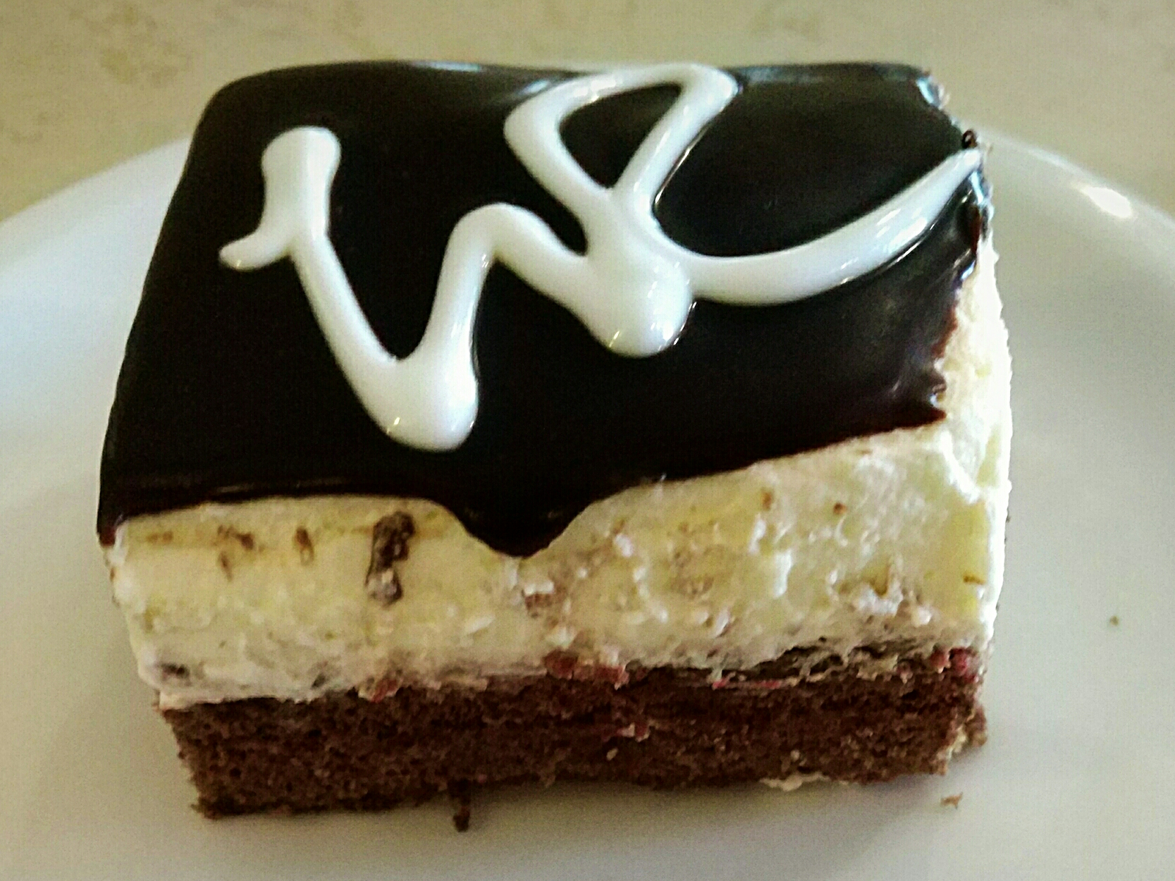 W - Z cake, Polish delicious cake.